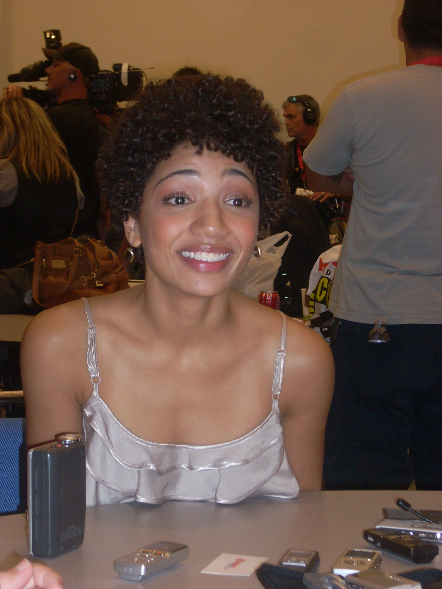 Actress Jasika Nicole – Comic-Con 2009 - "Fringe" Press Room - San Diego - July 25, 2009.